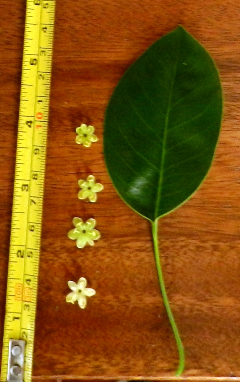 Tempisque tree flowers and leaf